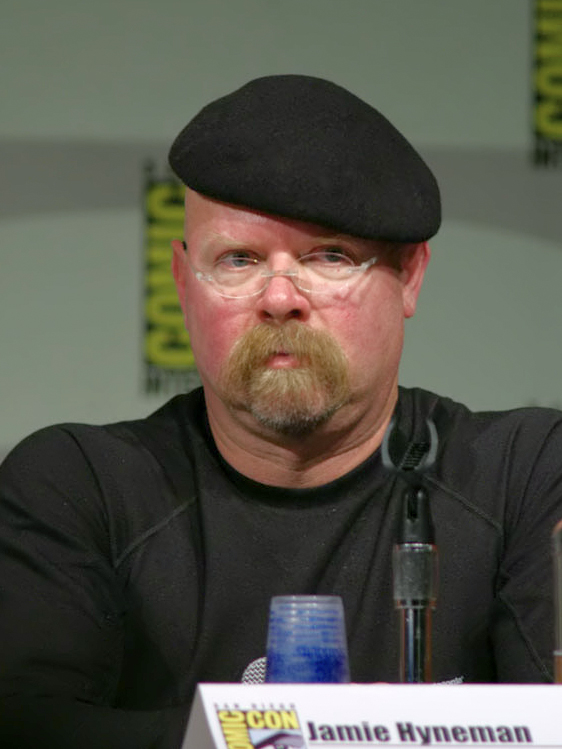 Jamie Hyneman at the San Diego Comic-Con 2010.